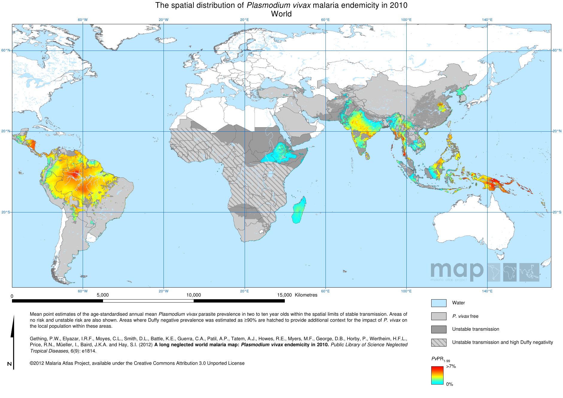 This image was obtained from This map shows estimated levels of Plasmodium vivax malaria endemicity within the limits of stable transmission. The mapped variable is the age-standardised P. vivax Parasite Rate (PvPR0-99) which describes the estimated proportion of the general population that are infected with P. vivax at any one time, averaged over the 12 months of 2010. Estimates are made based on data from parasite rate surveys which feed into a geostatistical model that produces a a range of predicted endemicities for each location (a probability distribution). The model also uses data from environmental covariates which help predict more accurately, especially in areas far from any actual survey data. The environmental covariates include rainfall, temperature, land cover and urban/ rural status. The model incorporated data on Duffy negativity in human populations, particularly in Africa, and we also provide a separate map of the predicted frequency of Duffy negativity. The endemicity map displayed shows the mean value for the probability distribution at each location (approx. 5km2).